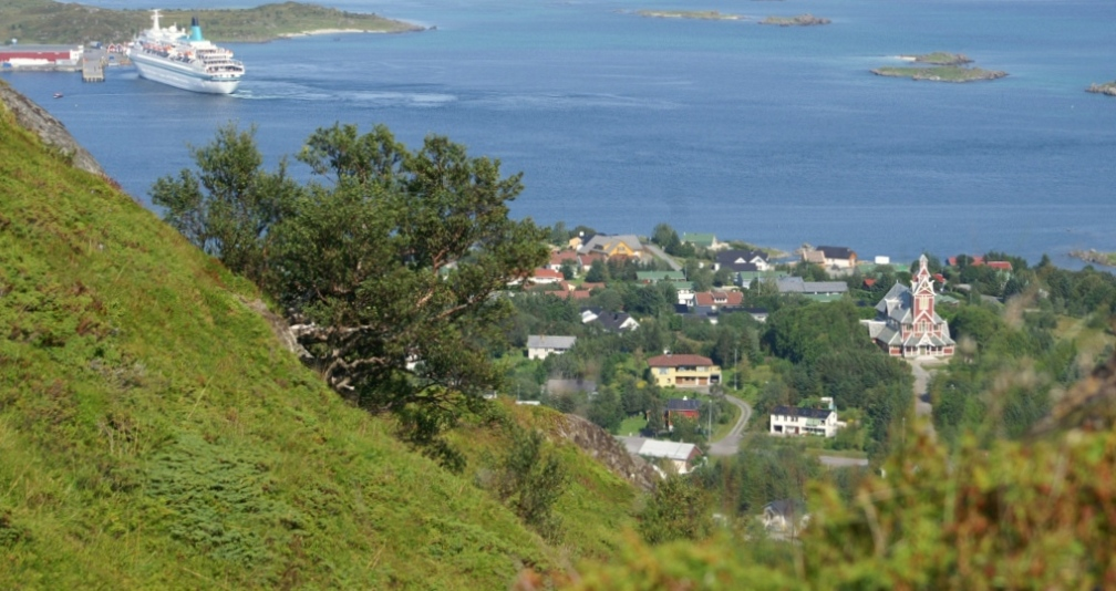 Photography by Haakon S. Rist